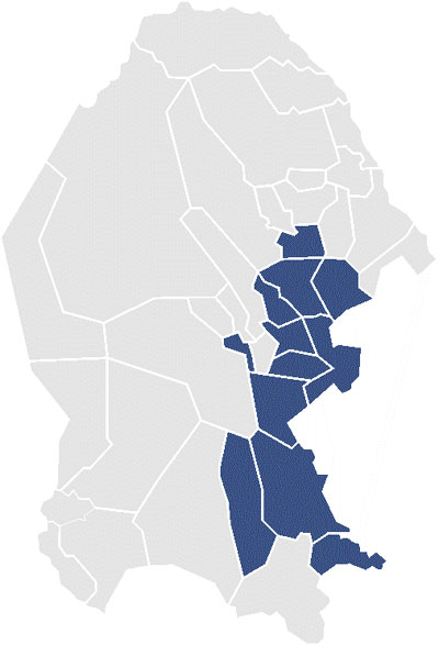 Map of the Third Federal Electoral District of the State of Coahuila, México.